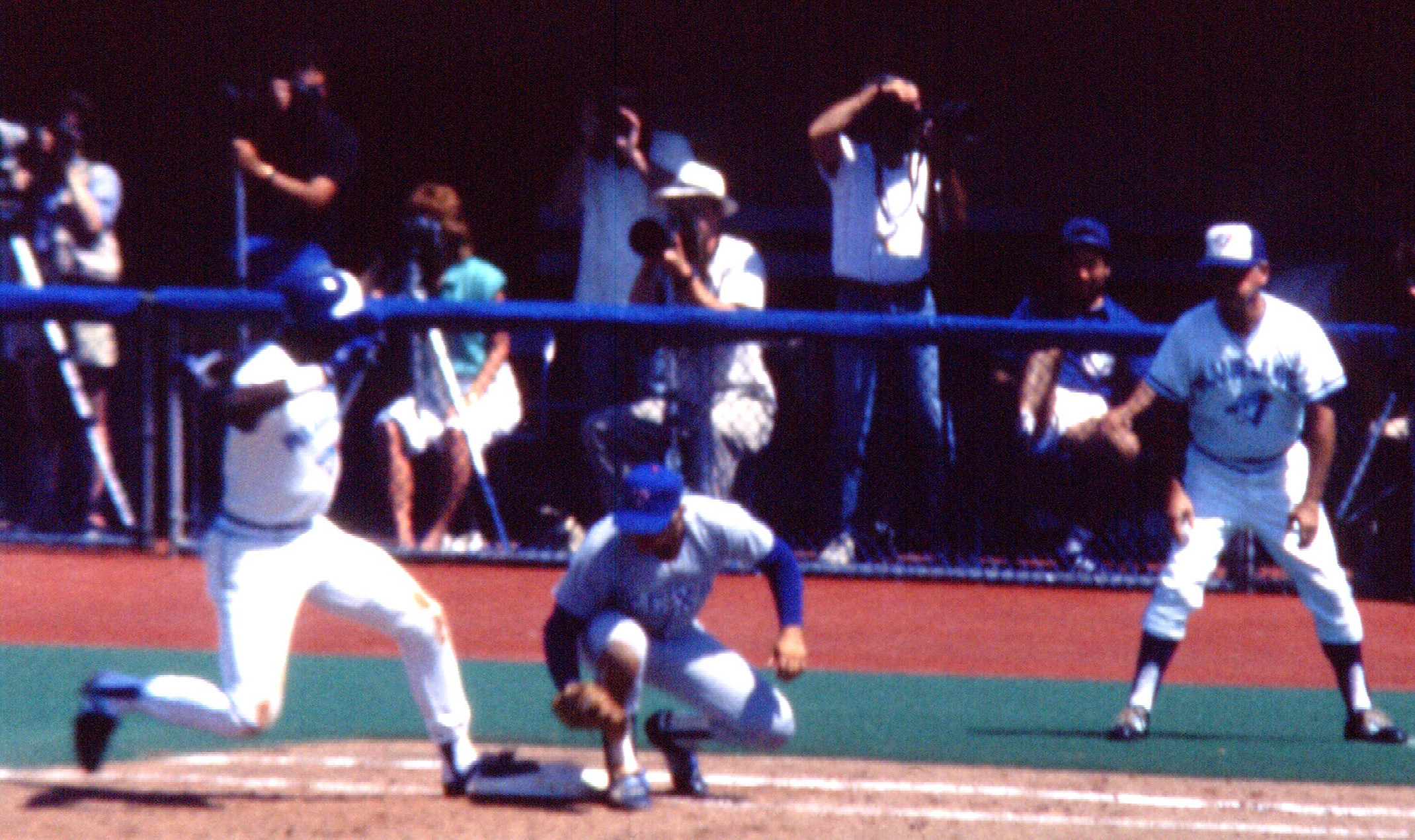 Play at first base - Blue Jays runner Lloyd Moseby returns to first base on a pickoff attempt as first baseman Pete O'Brien receives the ball from the pitcher. Watching the play is Blue Jays first base coach Billy Smith.